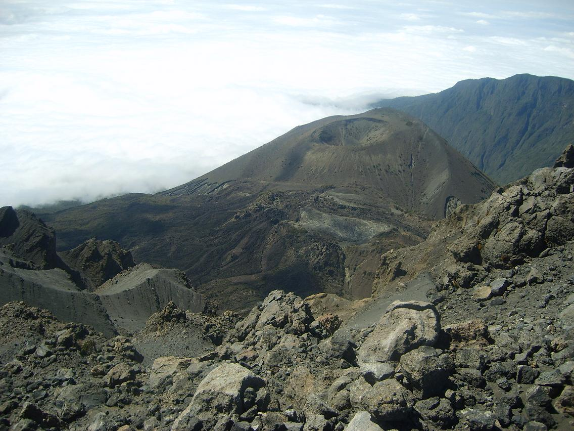 My own work